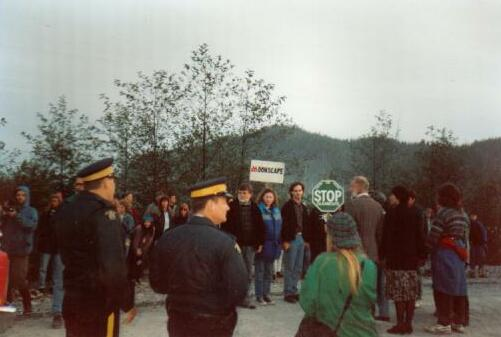 The circle of people to be arrested that day are summoned by the police to leave the road.